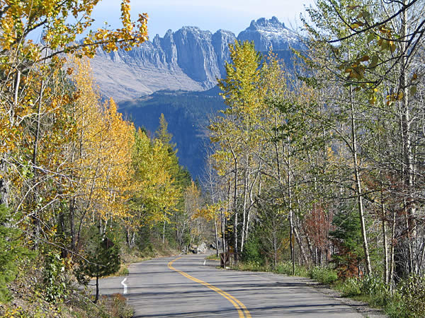 Glacier National Park, Montana, USA. Goint to the Sun Road in fall colors Original caption: Fall is an amazing time of the year in Glacier National Park. Colorful displays of yellow and gold abound around every corner as trees such as cottonwood, aspen, and birch change color and drop leaves. Larch, the only conifer that loses it's needles after they change color, also displays magnificent shades of yellow